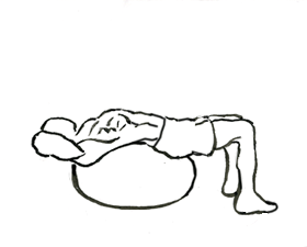 an exercise of abs